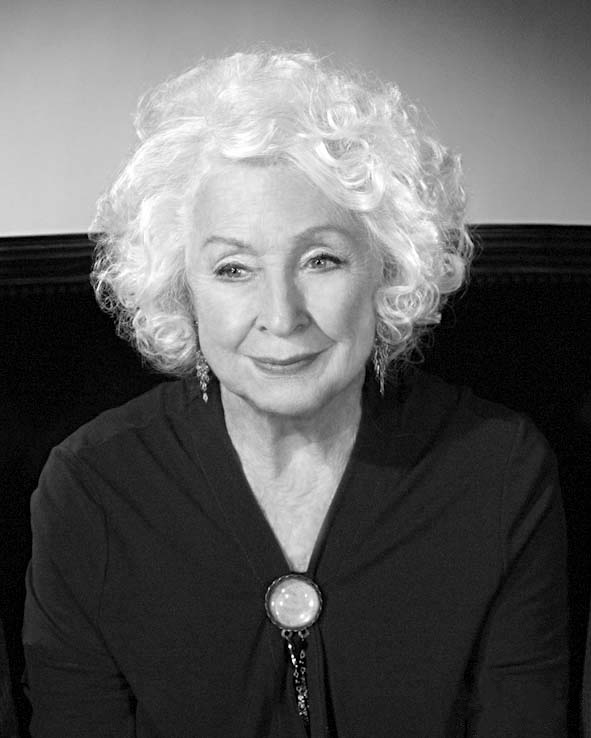 Danielle Darrieux photographed by Studio Harcourt Paris